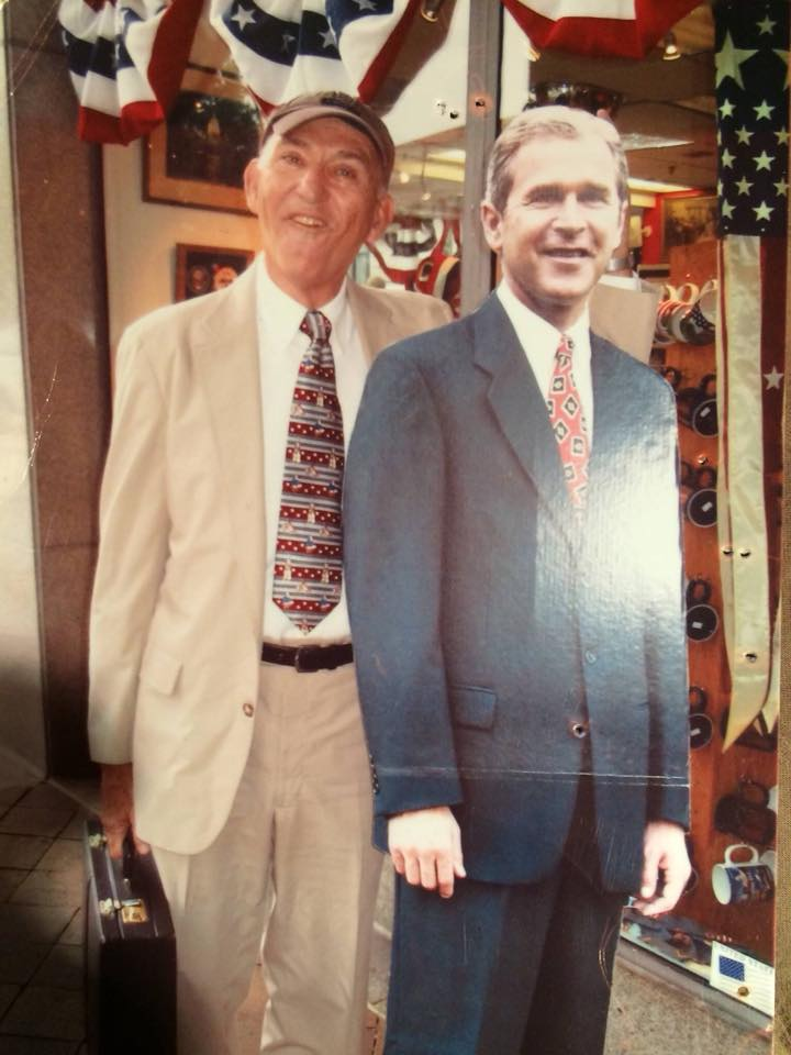 Photo of Sherwood Ross posing with a cutout of Pres. George W. Bush near the National Press Club in Washington, DC.